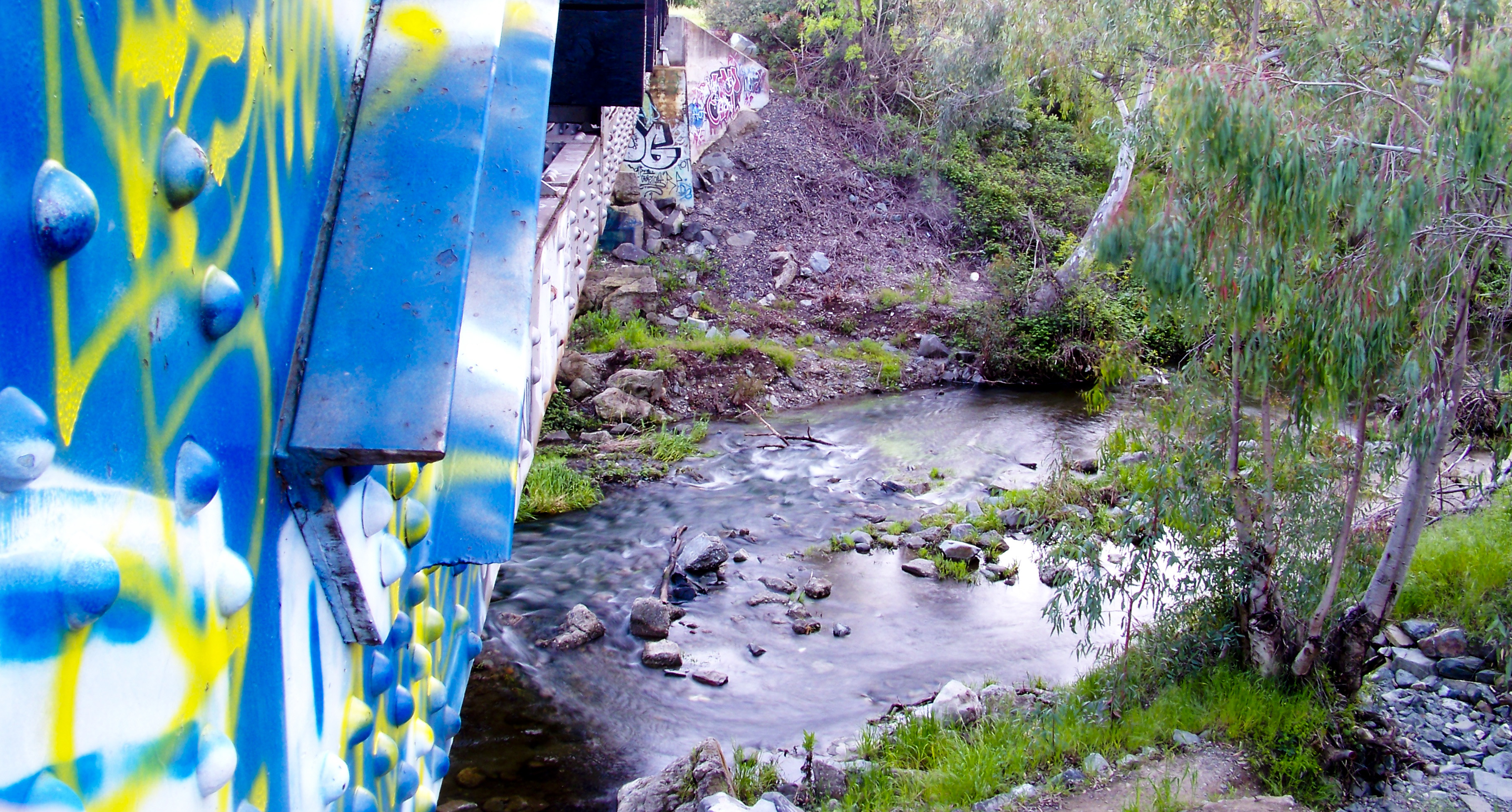 A picture showing the creek in relation to the surrounding urban environment. This picture is taken in Pleasanton, CA.